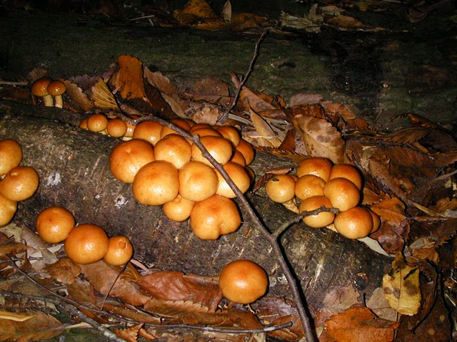 Home cultivation of Nameko (Pholiota nameko) mushrooms on wild cherry log.